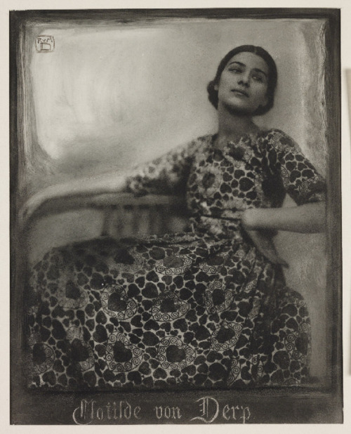 Portrait of Clotilde von Derp